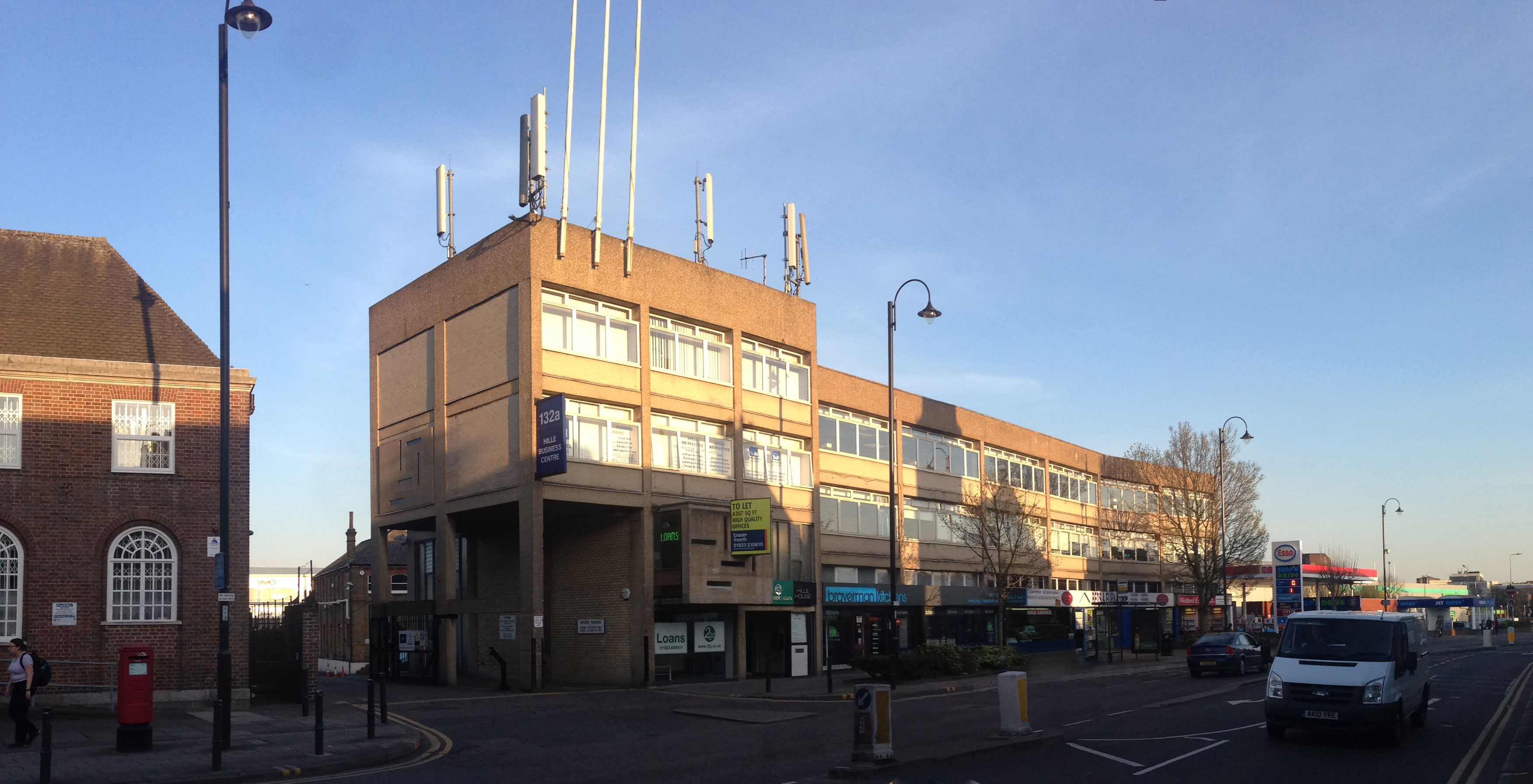 Hille House, 124-132 St Albans Road, Watford, designed by Ernő Goldfinger in 1959. The front of the building features a cantilevered concrete box glazed with brightly coloured glass (bottom left, obscured by an estate agent's hoarding), a signature of Goldfinger's design and the first of his buildings to have this feature.